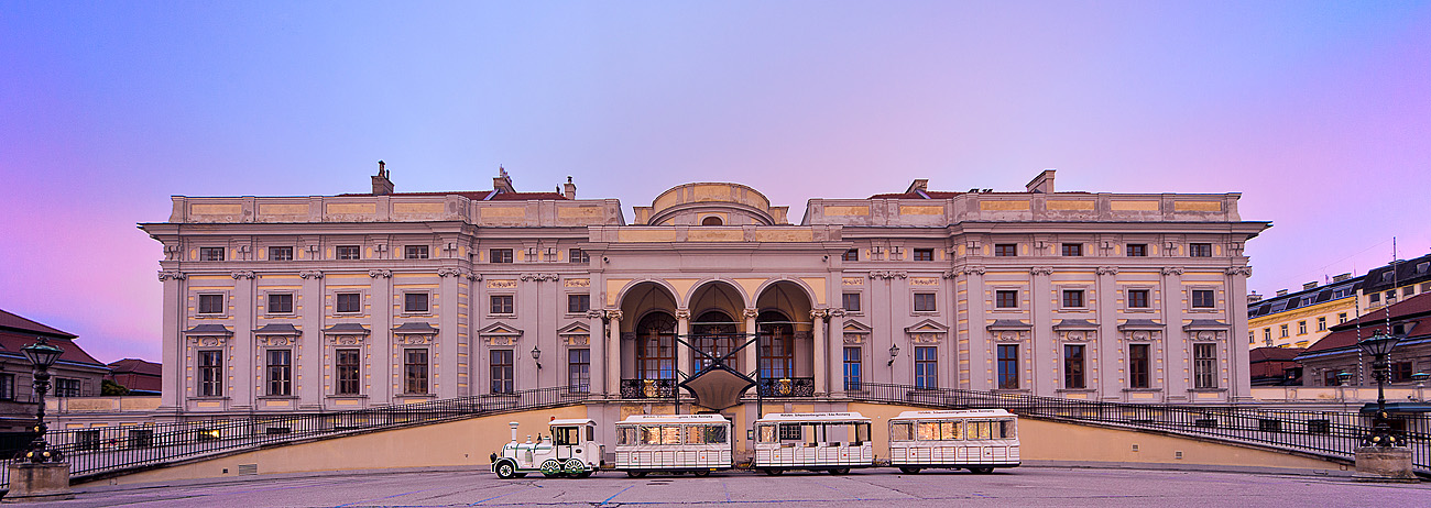 Palais Schwarzenberg